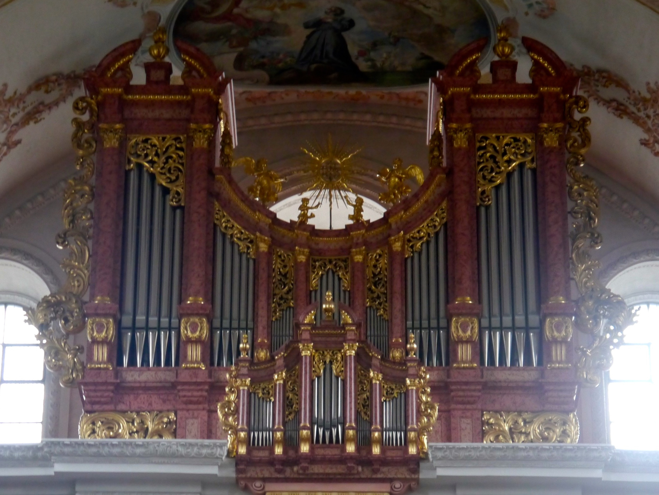 Organ of the Jesuit Church St. Francis Xavier, Lucerne, Canton of Lucerne, Central Switzerland